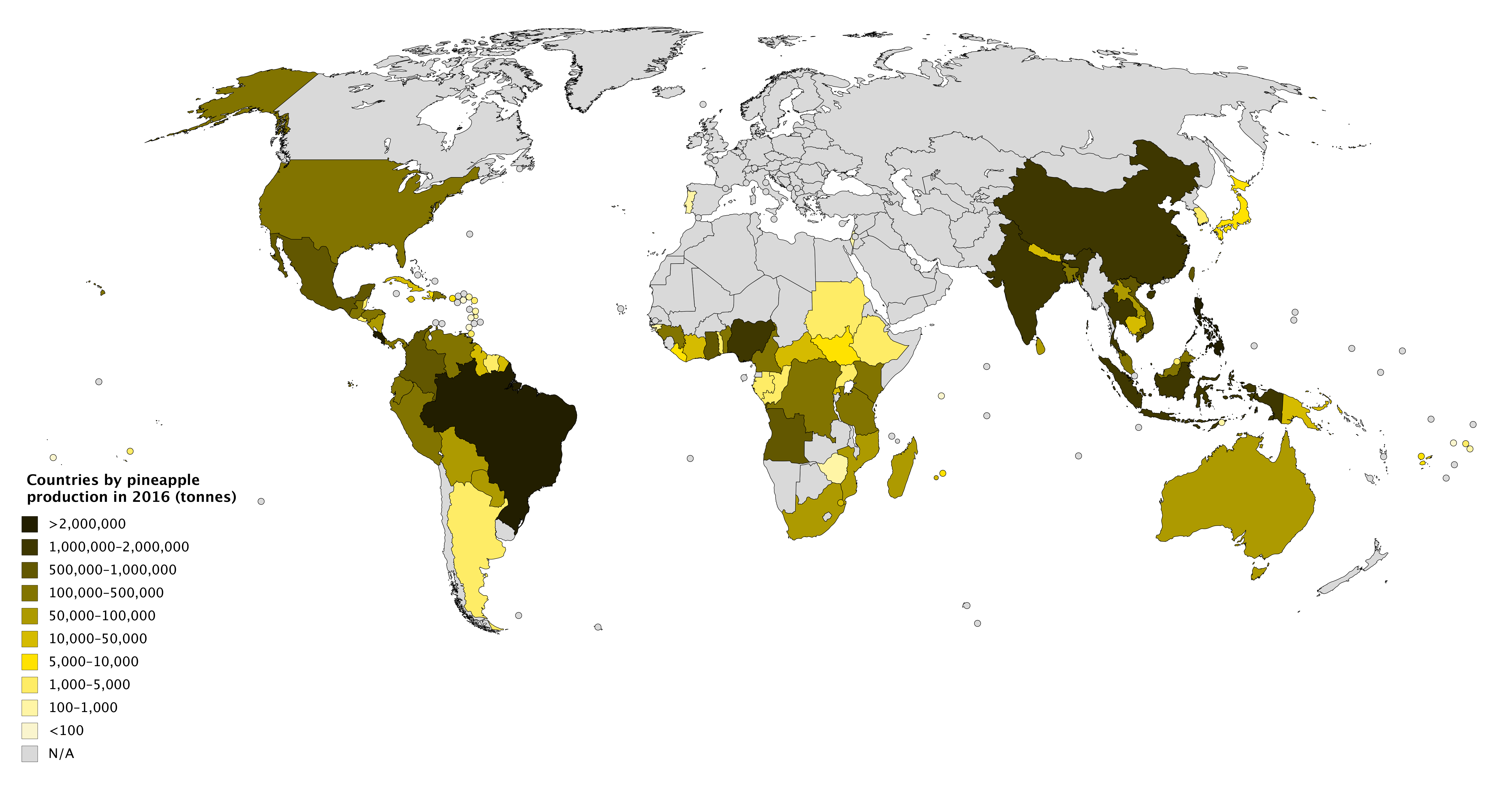 A choropleth map showing countries by pineapple production in tonnes, based on 2016 data from the Food and Agriculture Organization Corporate Statistical Database (FAOSTAT).